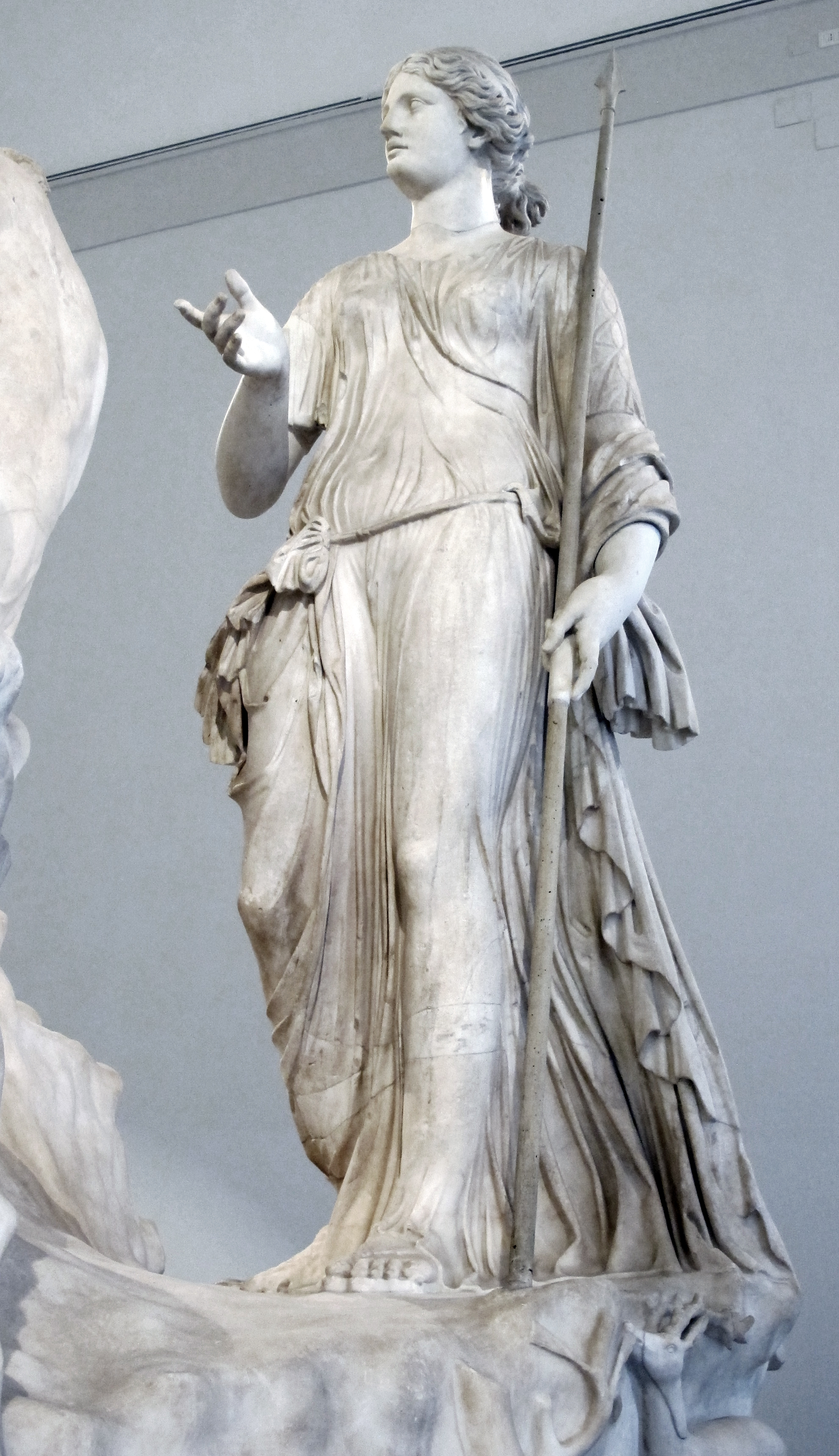 Ancient Roman statues in the Museo Archeologico (Naples)